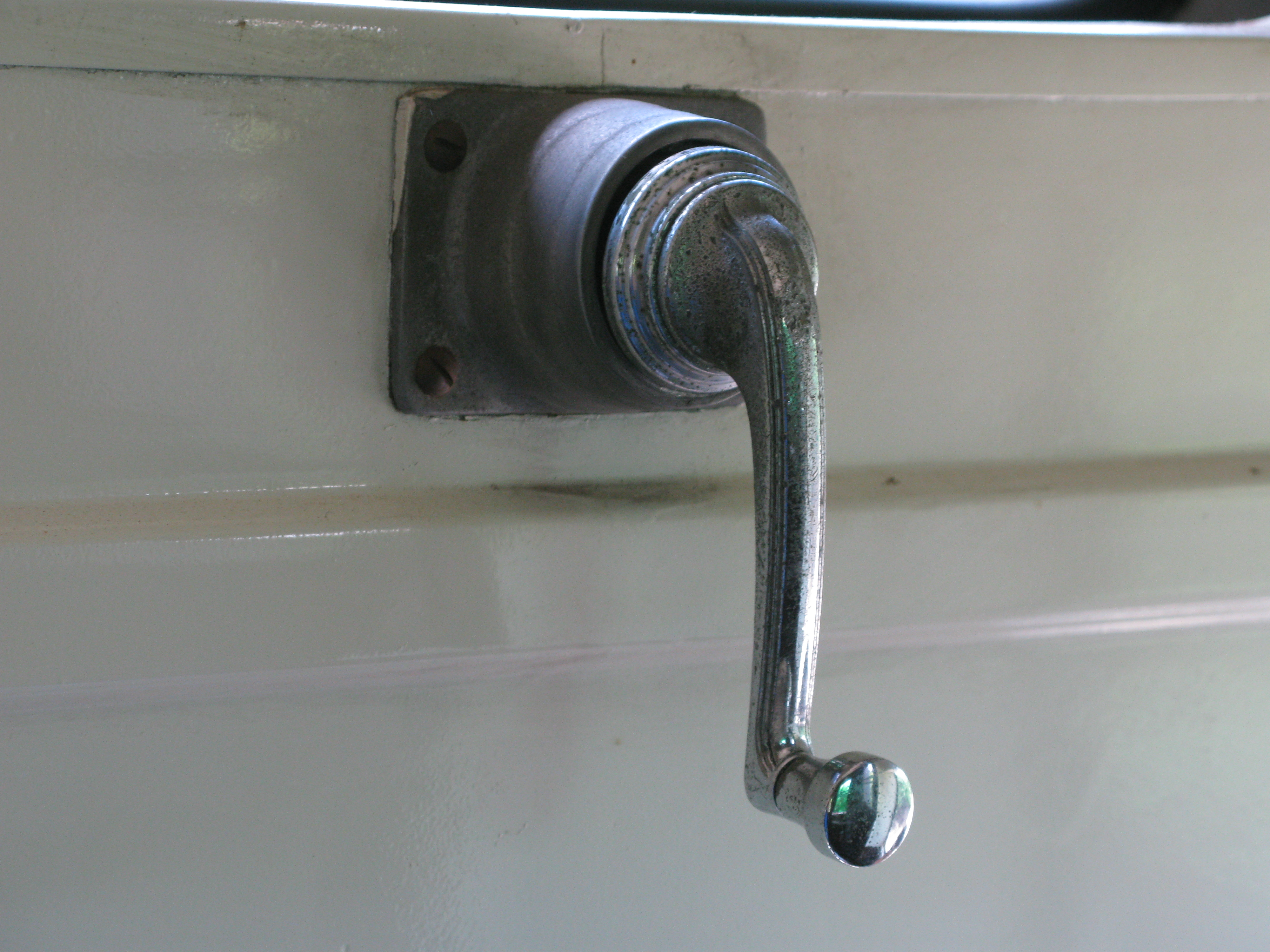 Window Crank on CTA 1-50 Series 30 railroad car Illinois Railway Museum